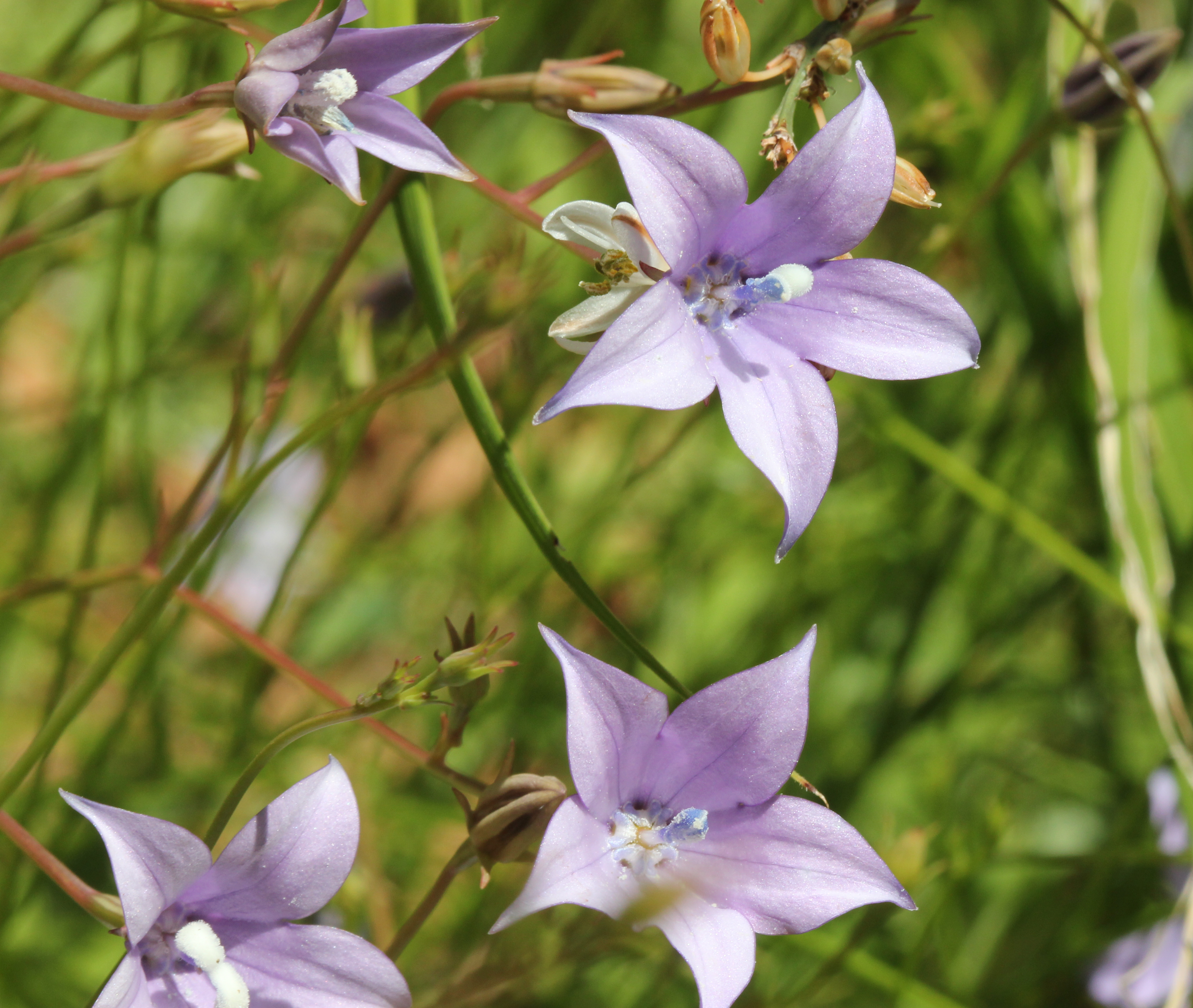 Wahlenbergia rivularis in a herbaceous bed in Kirstenbosch National Botanical Garden.